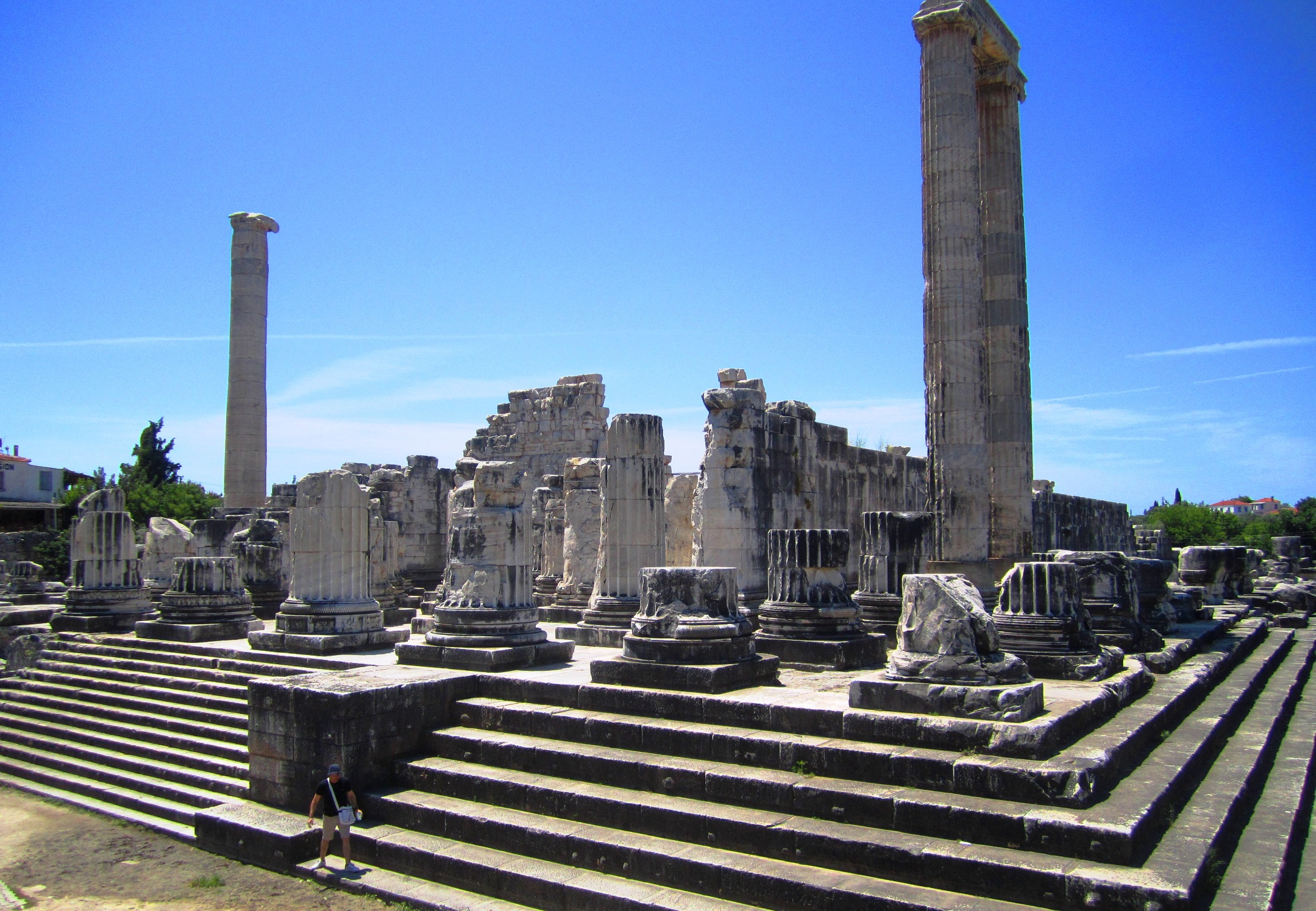 Temple of Apollo in Didyma